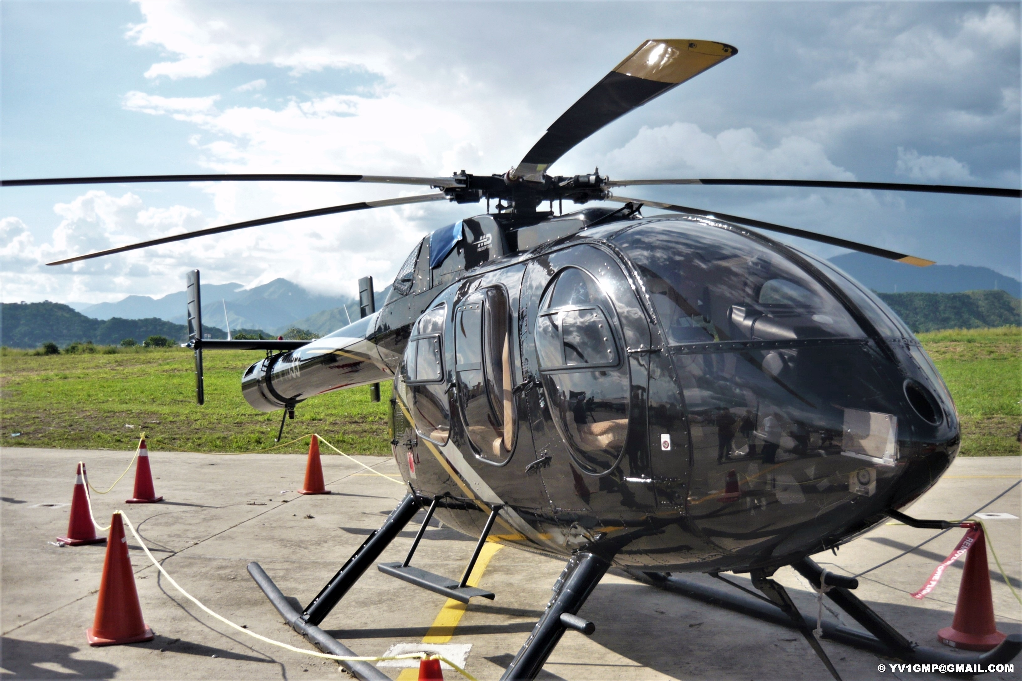 McDonnell Douglas MD-600N for private use with YV1833 registration at Mariscal Sucre Air Base (SVBS) in Venezuela